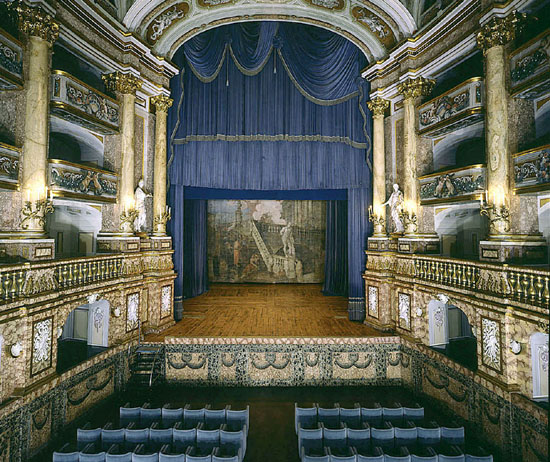 Caserta